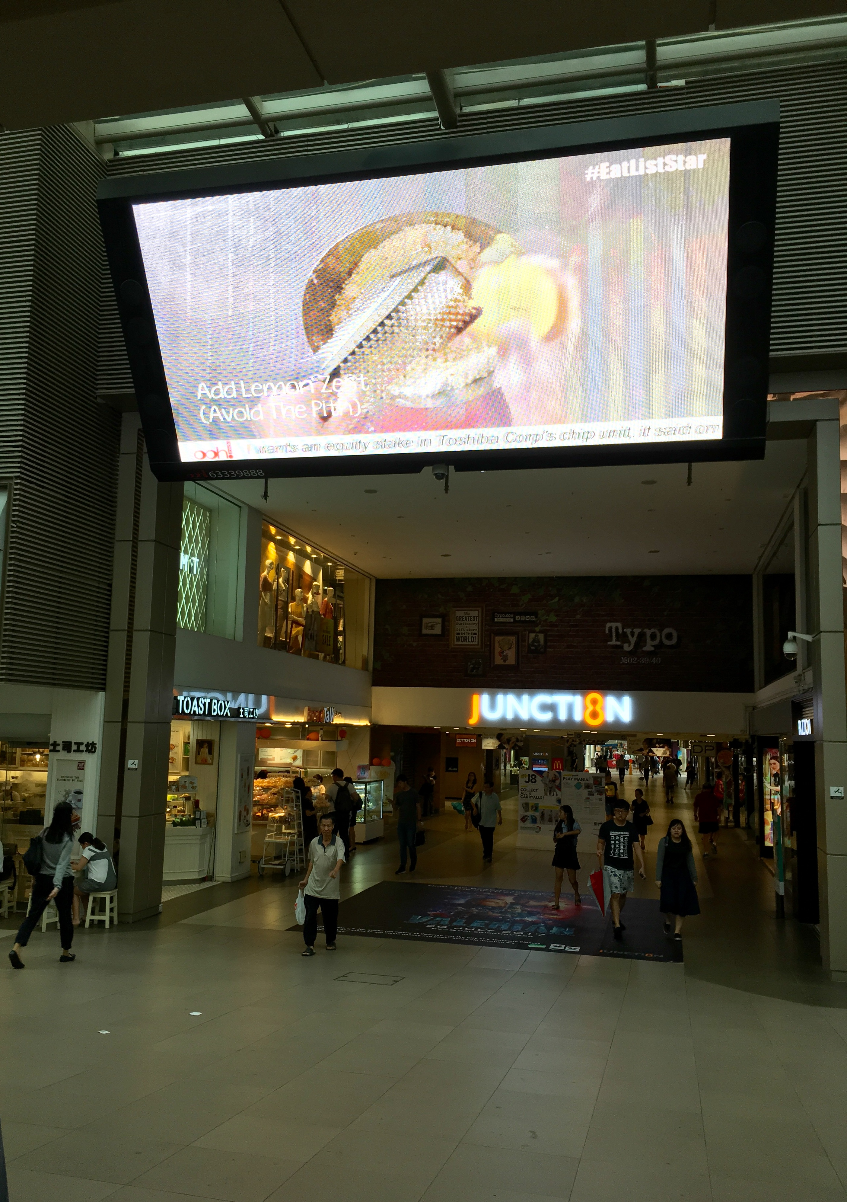 Main entrance of Junction 8 Shopping Centre